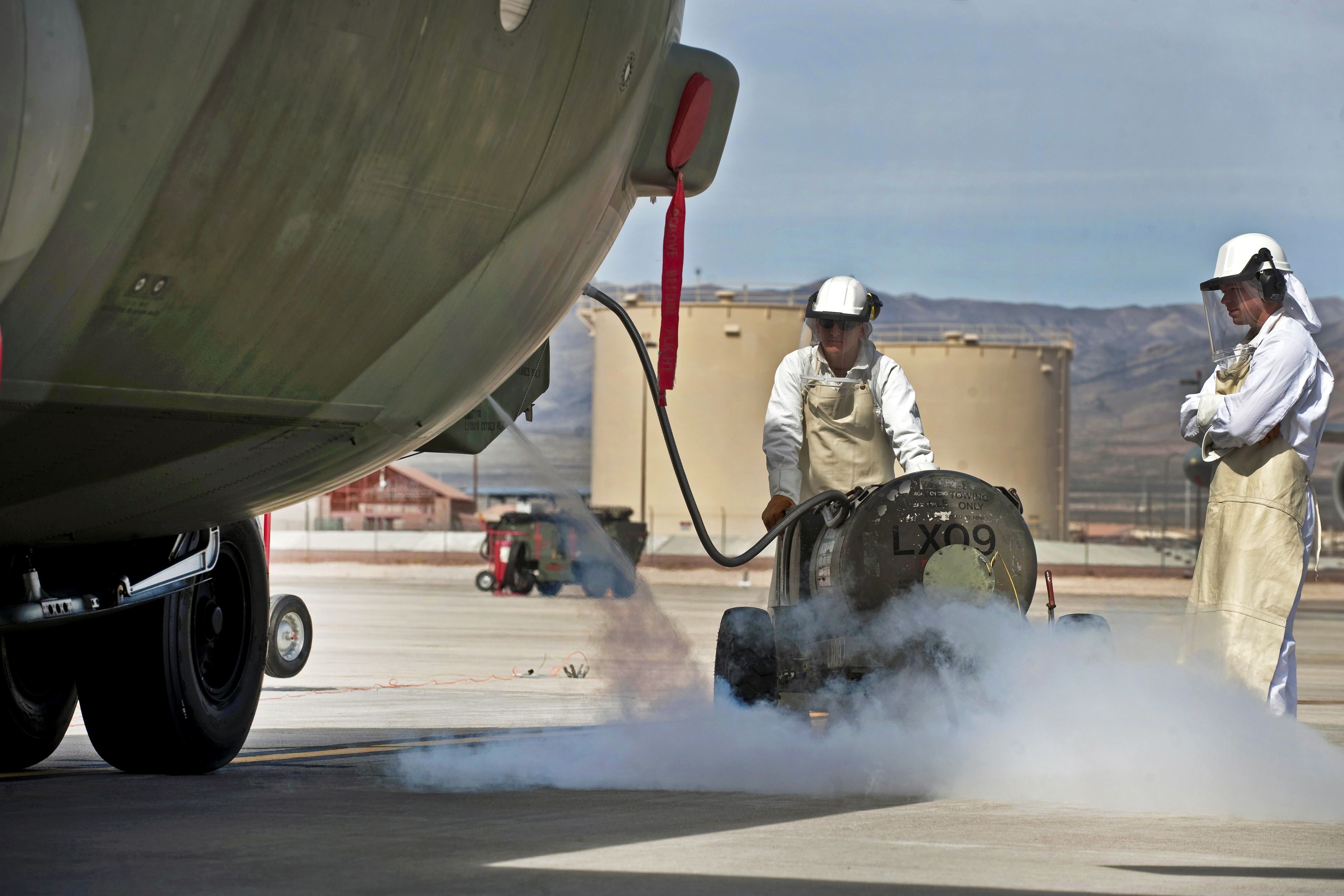 Royal Australian Air Force Leading Air Craftsmen aircraft mechanics Grant Flormio and Rhys Utley perform a liquid oxygen replenishment on a C-130H Hercules on Nellis Air Force Base, Nev., March 1, 2011.